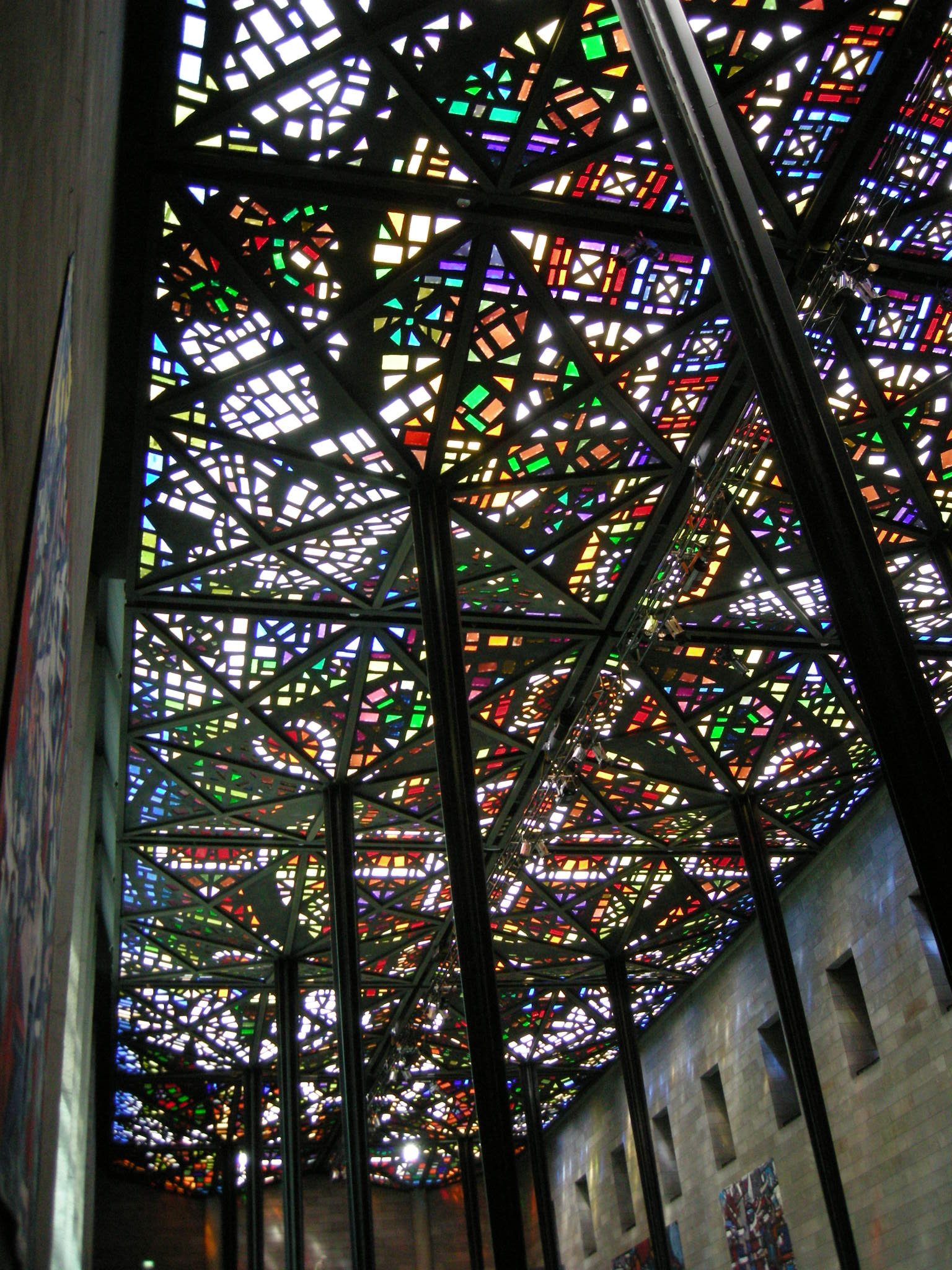 National Gallery of Victoria, great hall